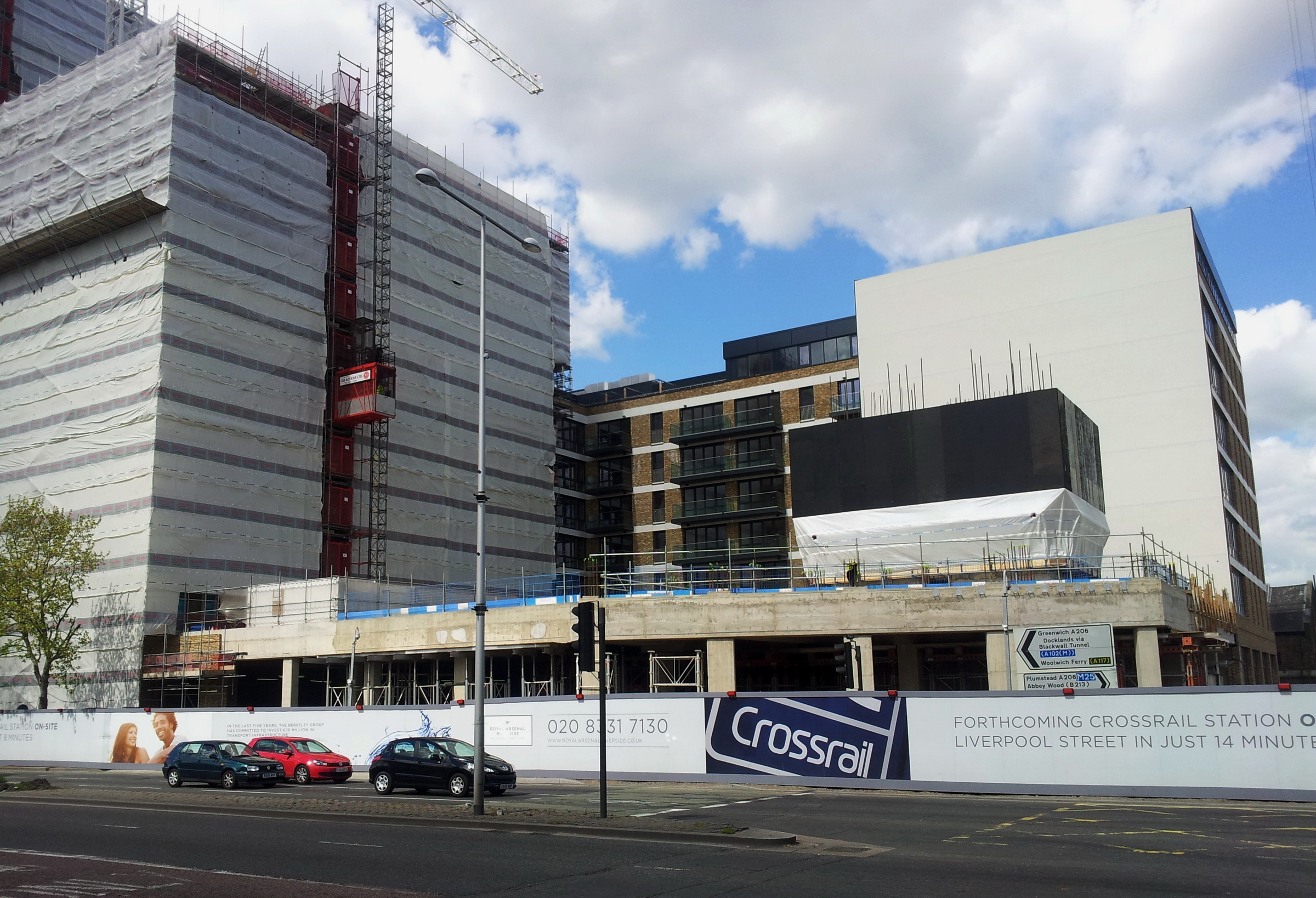 Construction site near the new Crossrail station at Plumstead Road, Woolwich, Southeast London.